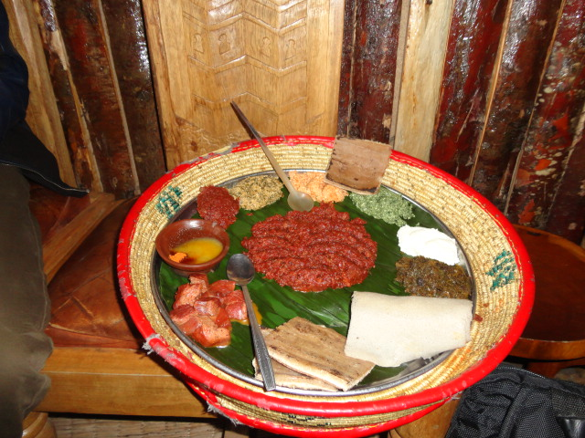 Kitfo (Amharic: ክትፎ?, IPA: [kɨtfo]), sometimes spelled ketfo, is a traditional dish found in Ethiopian cuisine. Kitfo consists of minced raw beef, marinated in mitmita (a chili powder based spice blend) and niter kibbeh (a clarified butter infused with herbs and spices). The word comes from the Ethio-Semitic root k-t-f, meaning "to chop finely; mince." Kitfo cooked lightly rare is known as kitfo leb leb.[1] Kitfo is often served alongside—sometimes mixed with—a mild cheese called ayibe or cooked greens known as gomen. In many parts of Ethiopia, kitfo is served with injera, a flatbread made from teff, although in traditional Gurage cuisine, one would use kocho, a thick flatbread made from the ensete plant. An ensete leaf may be used as a garnish. Though not considered a delicacy, kitfo is generally held in high regard. This is an image of food from Ethiopia